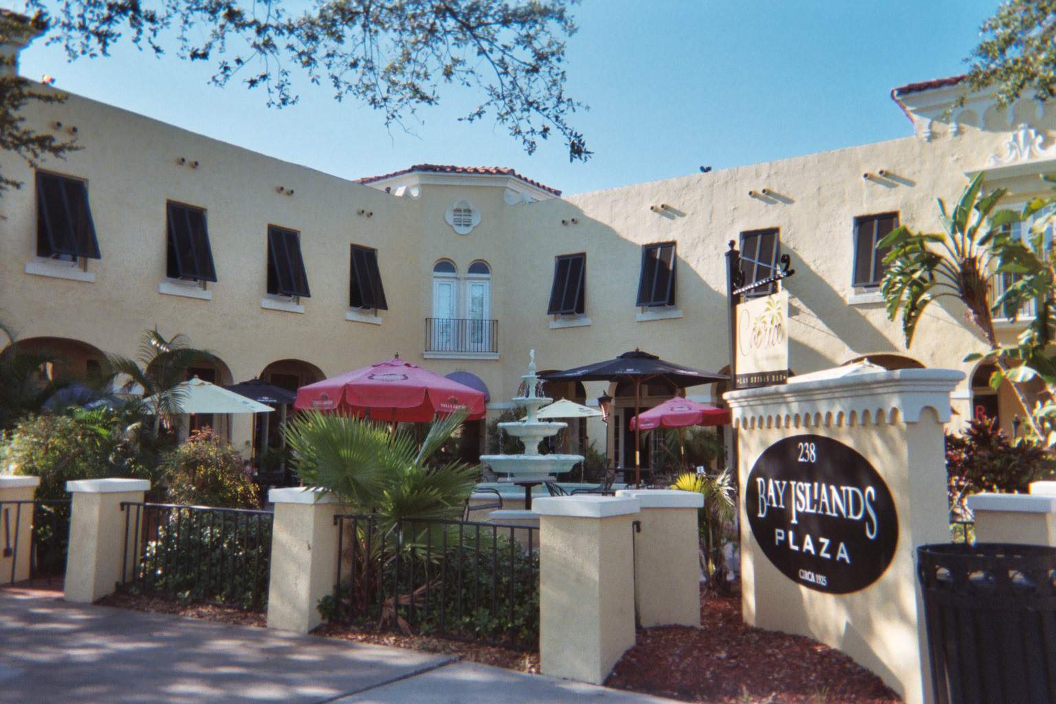 Bay Isle Commercial Building on Davis Island, in Tampa, Florida